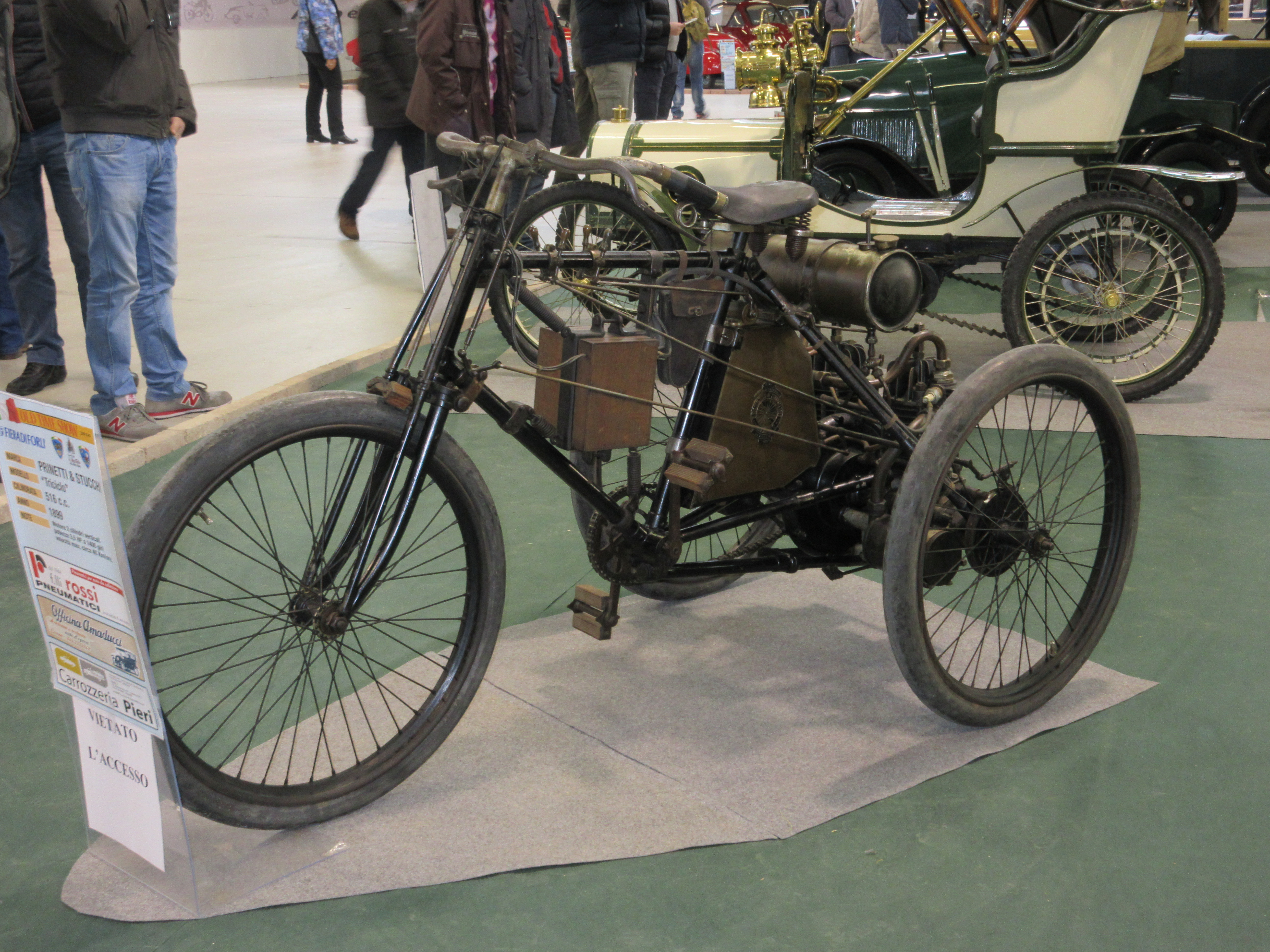 Subject: Triciclo Prinetti & Stucchi Author: Luc106 Date:March 5th, 2016 Event: Old Time Show Place/Country: Forlì (Italy) I release all rights in the public domain.